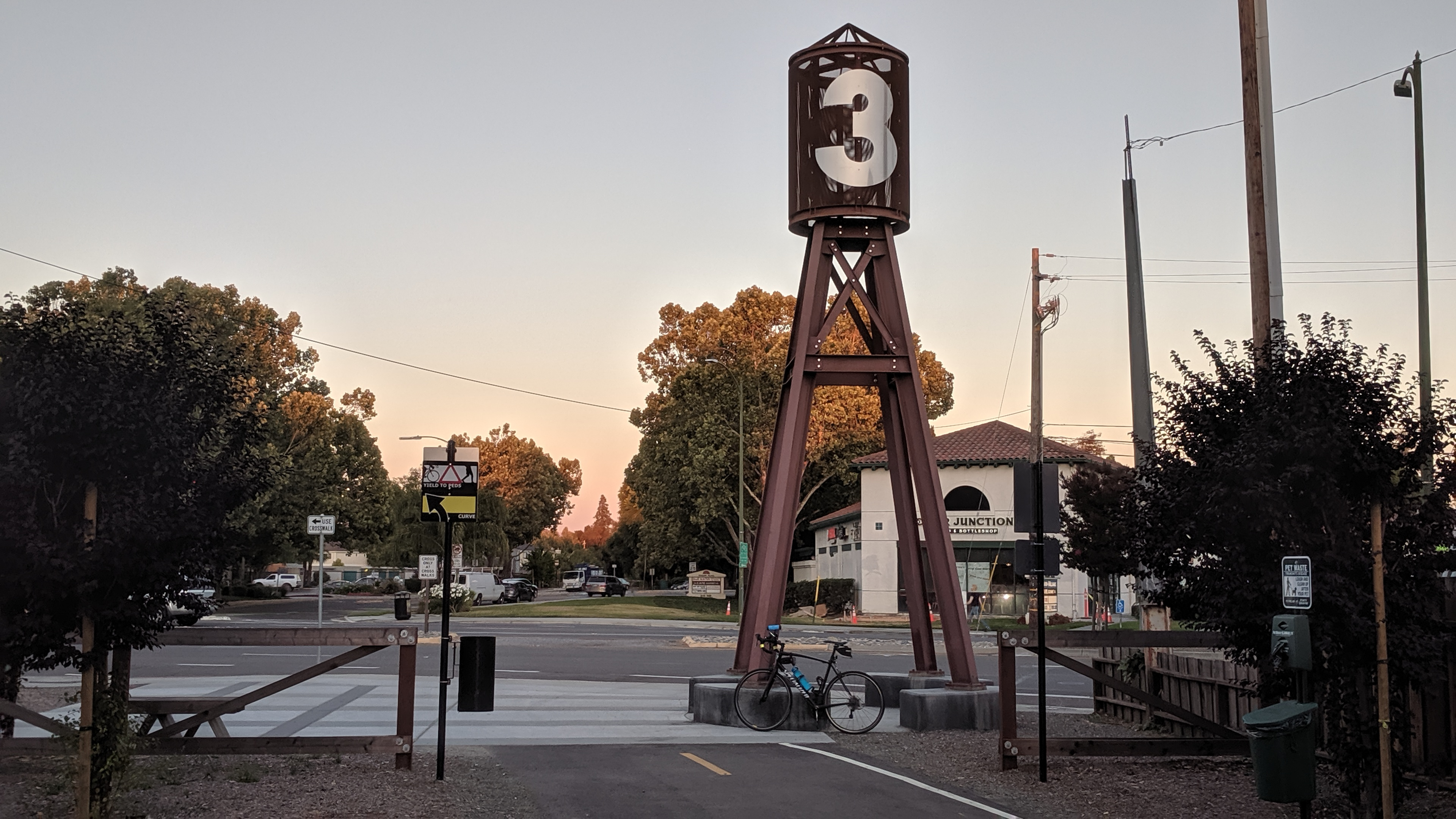 A decorative water tower symbolic of those use historically by steam trains with the number 3 for the Three Creeks Trail